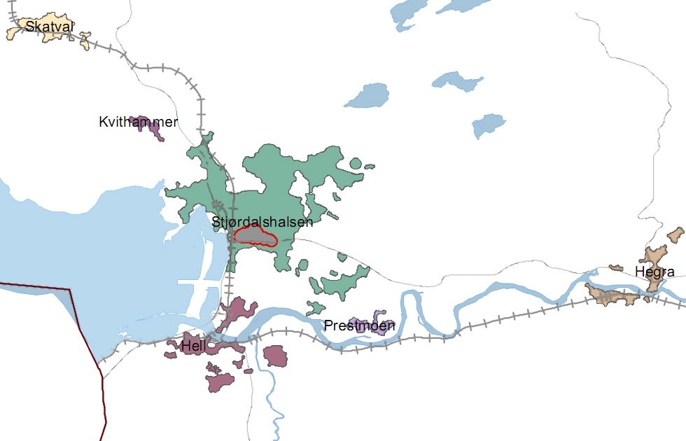 Urban area of Stjørdal